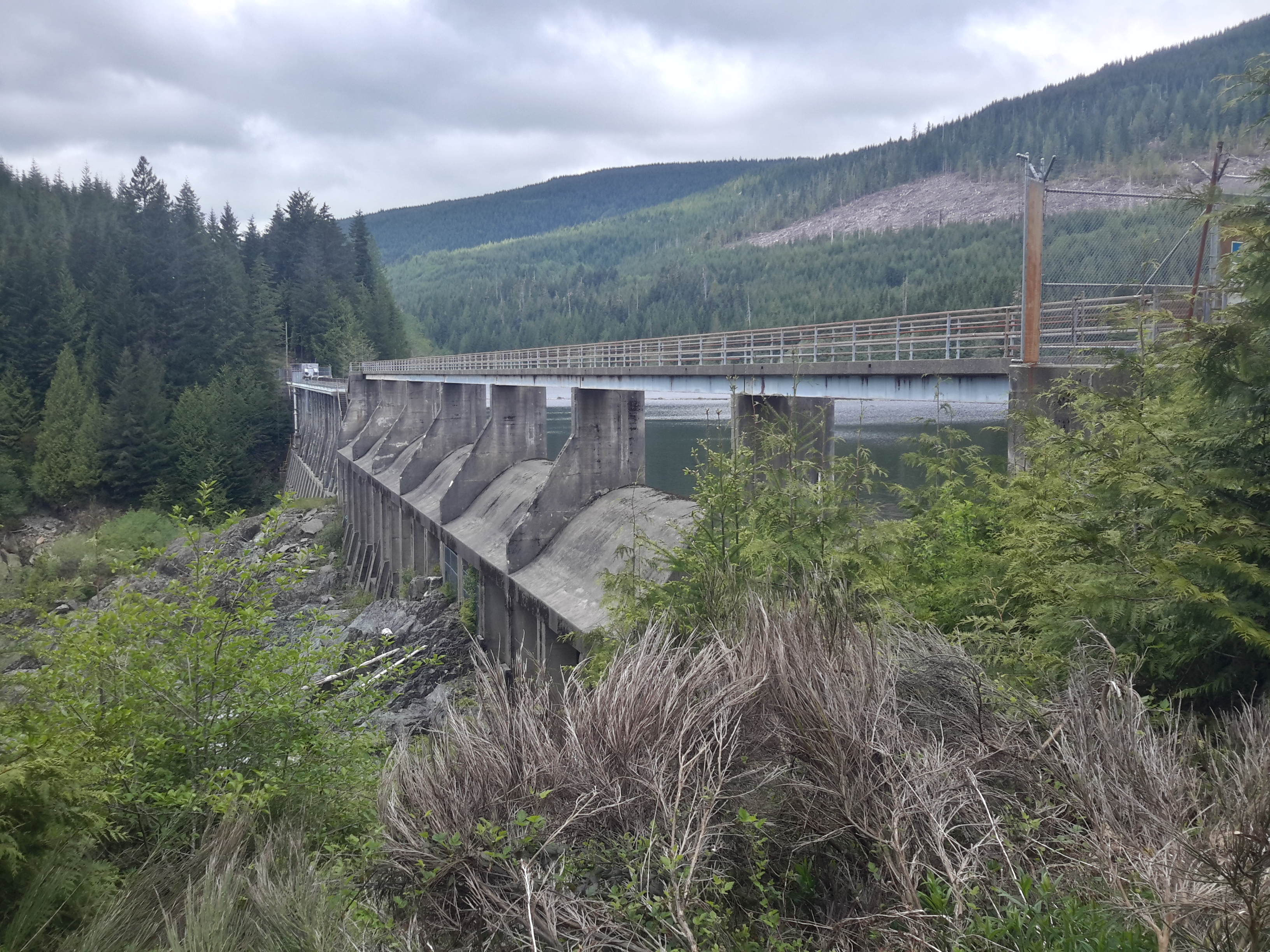 Jordan River Diversion Dam seen from the South End.